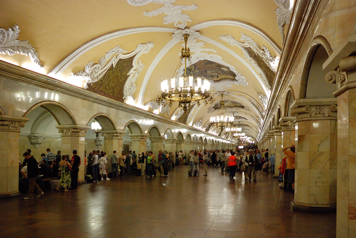 Komsomolskaya-Koltsevaya in the august morning